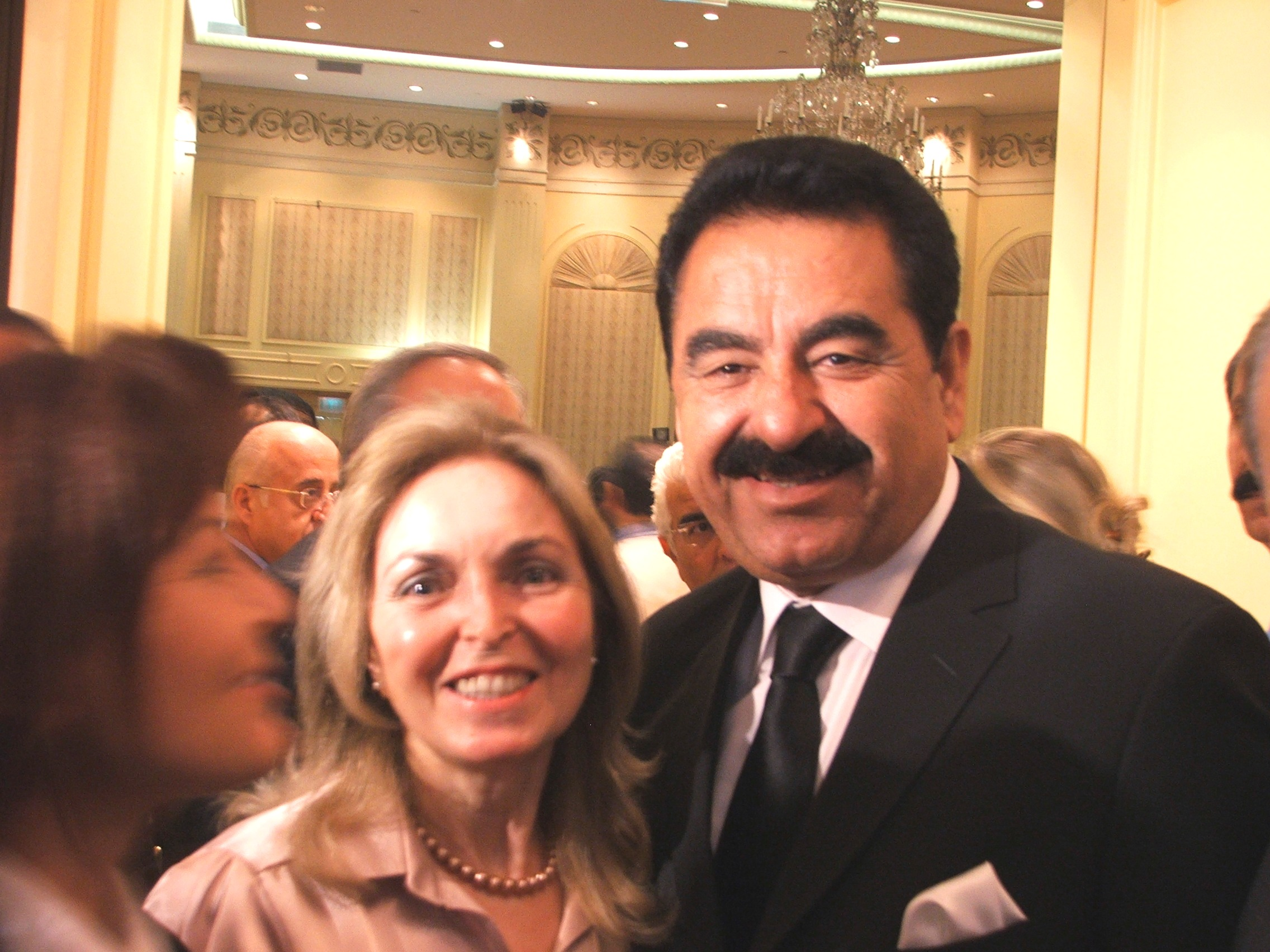 İbrahim Tatlıses at Genç Parti conference